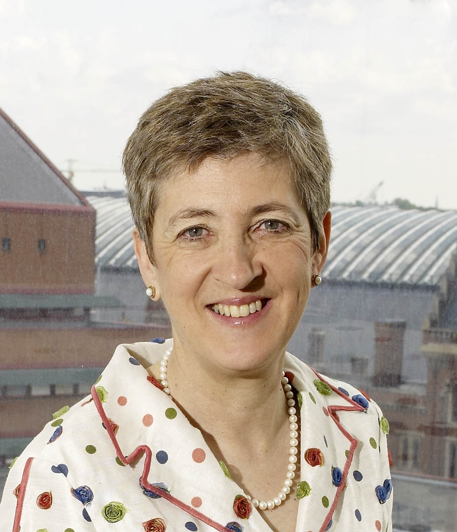 A 2008 head and shoulders portrait of Dame Lynne Brindley DBE, Chief Executive of the British Library